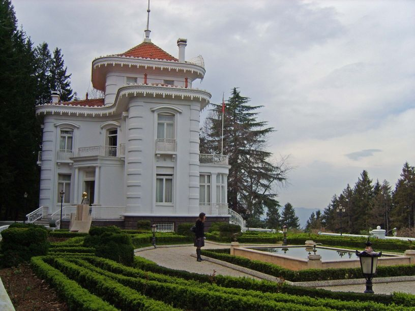 Atatürk house in Trabzon